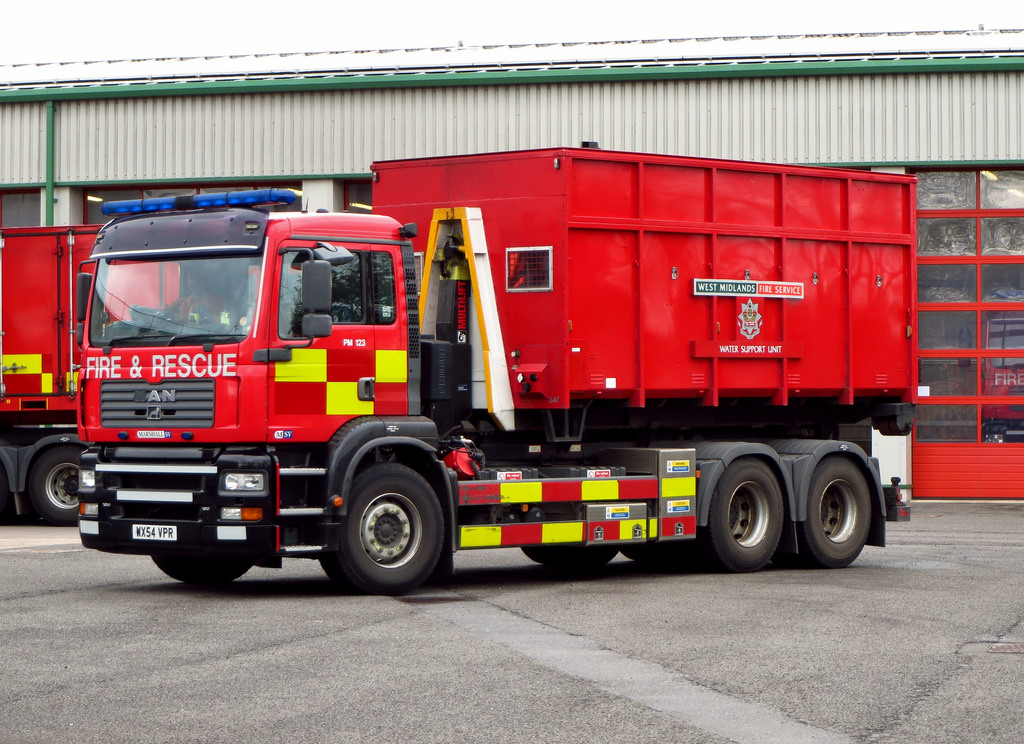 WMFS Technical Rescue Unit Prime Mover